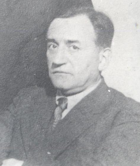 Teodor Trayanov, 1928